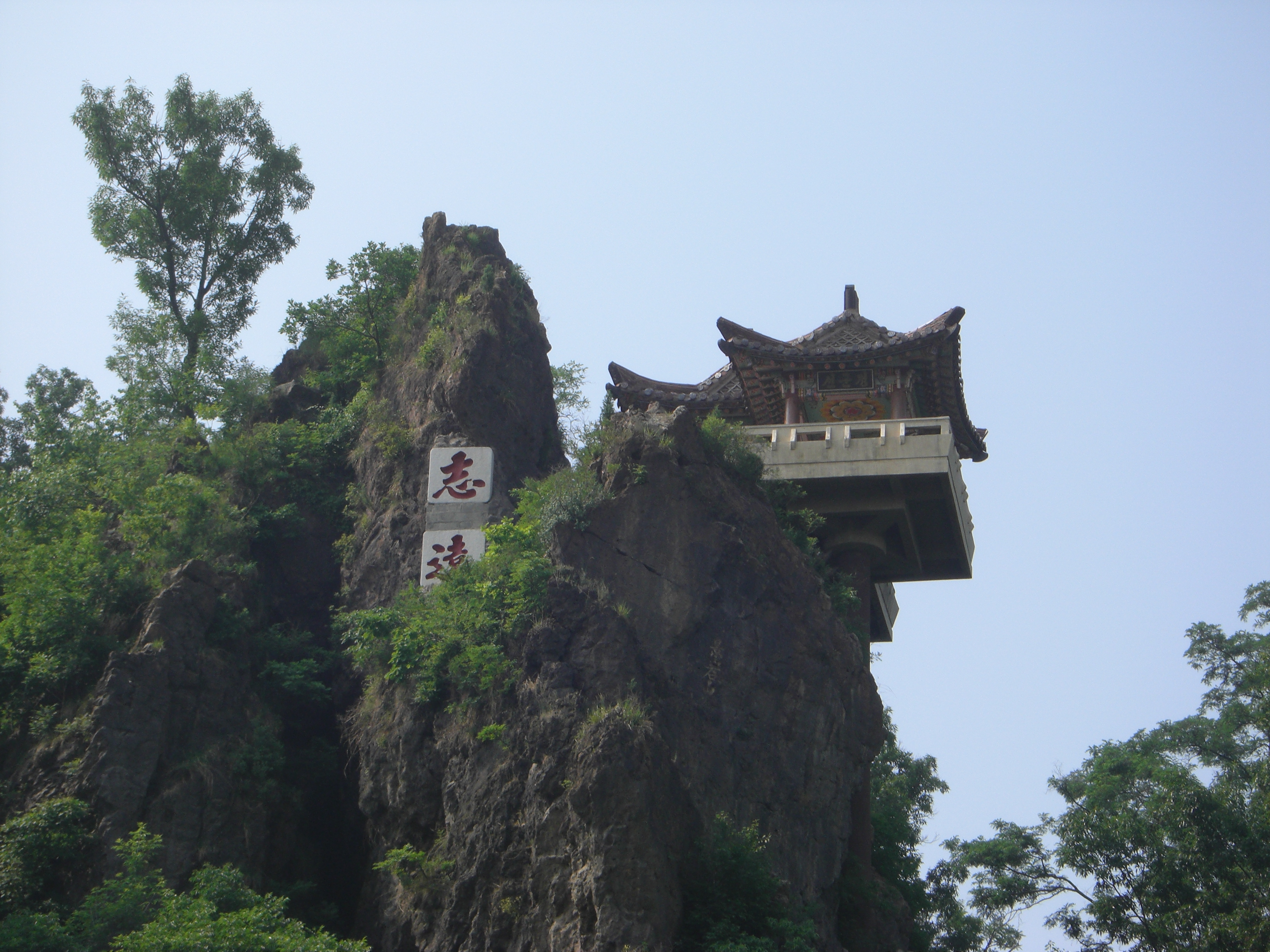 Sariwŏn Folk Village, North Korea.